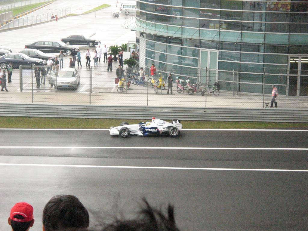 Heidfeld at the 2006 Chinese GP